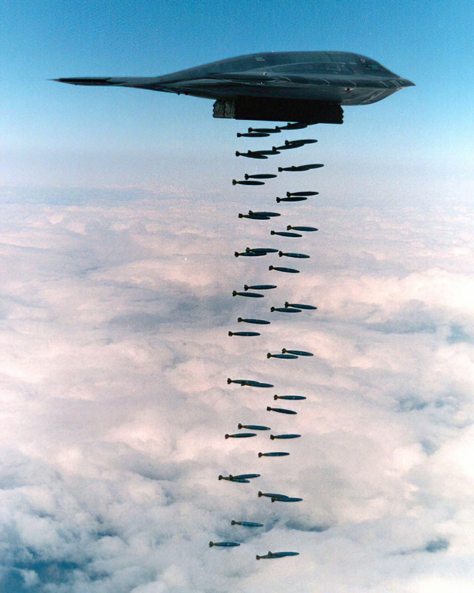 A B-2 Spirit dropping Mk.82 bombs into the Pacific Ocean in a 1994 training exercise off Point Mugu, California, near Point Mugu State Park.